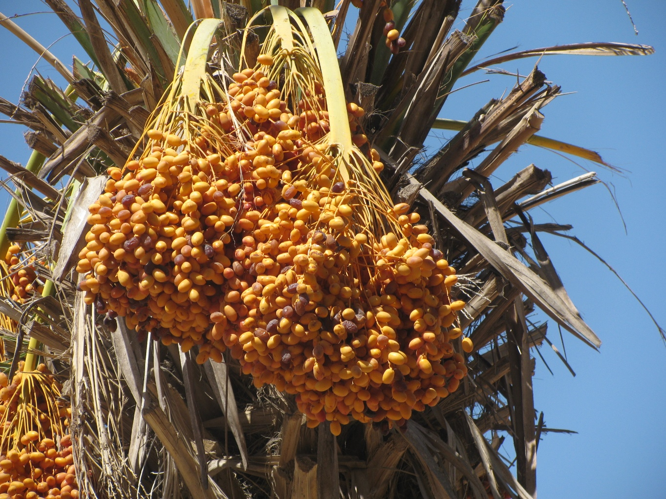 Nature and Colors